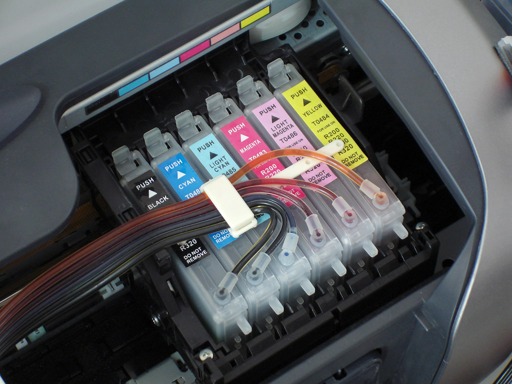 Picture of my Epson inkjet printer with a continuous ink system installed. Author: Denis Gomes Franco